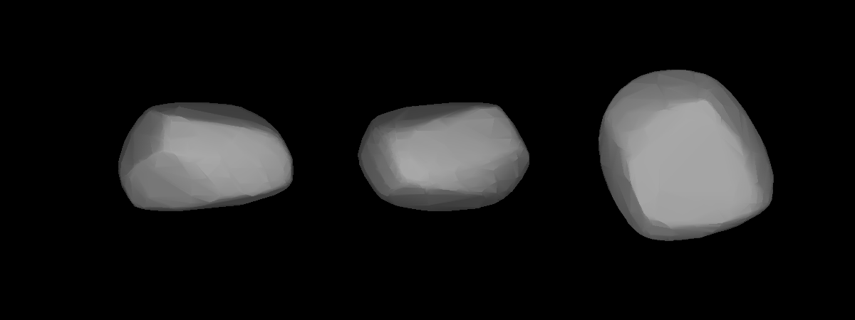 A three-dimensional model of 377 Campania that was computed using light curve inversion techniques.